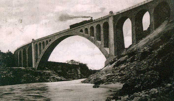 Solkan bridge soon after completion in 1906